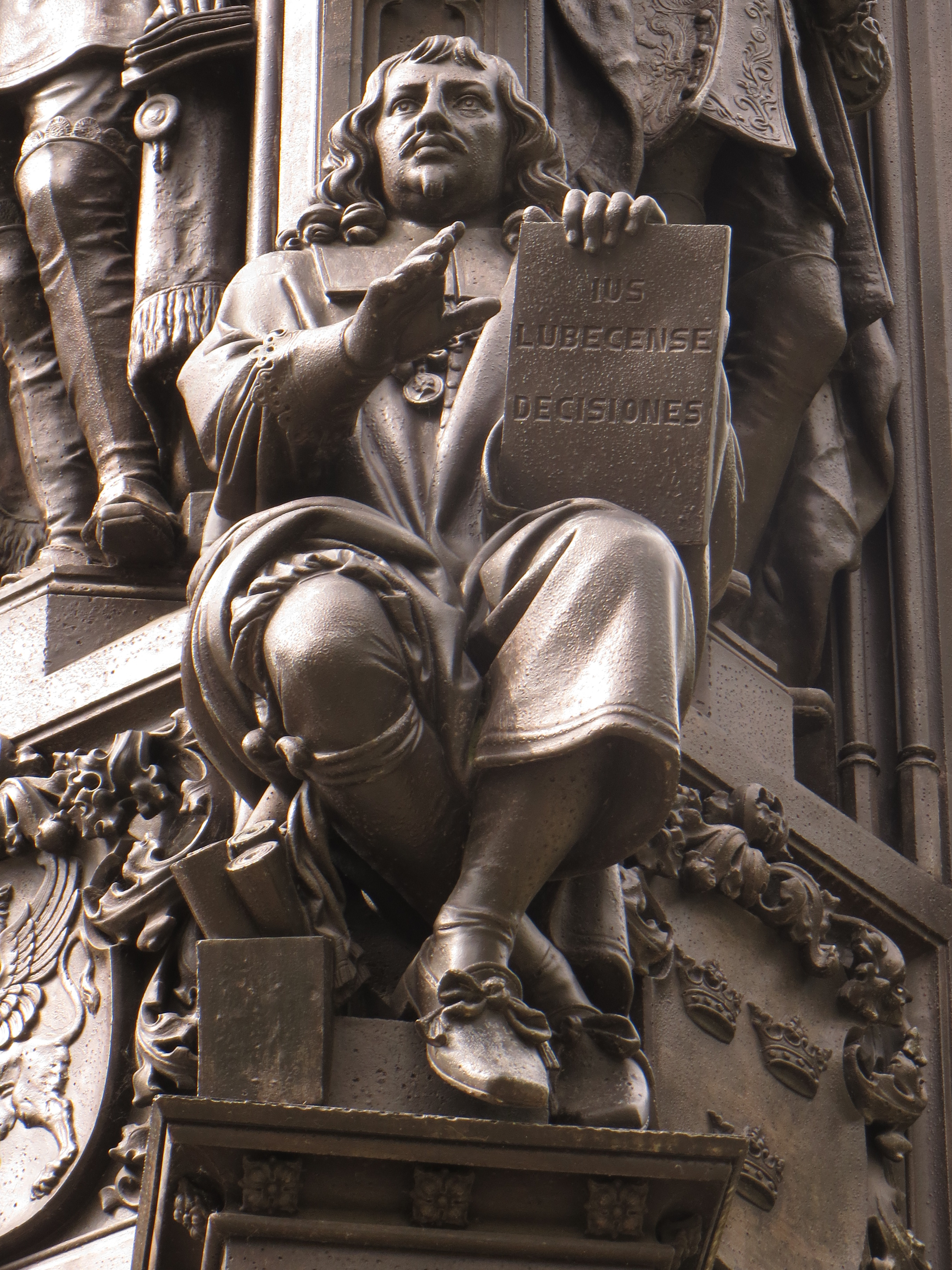 Figure of David Mevius representing Jurisprudence, Rubenowdenkmal Greifswald